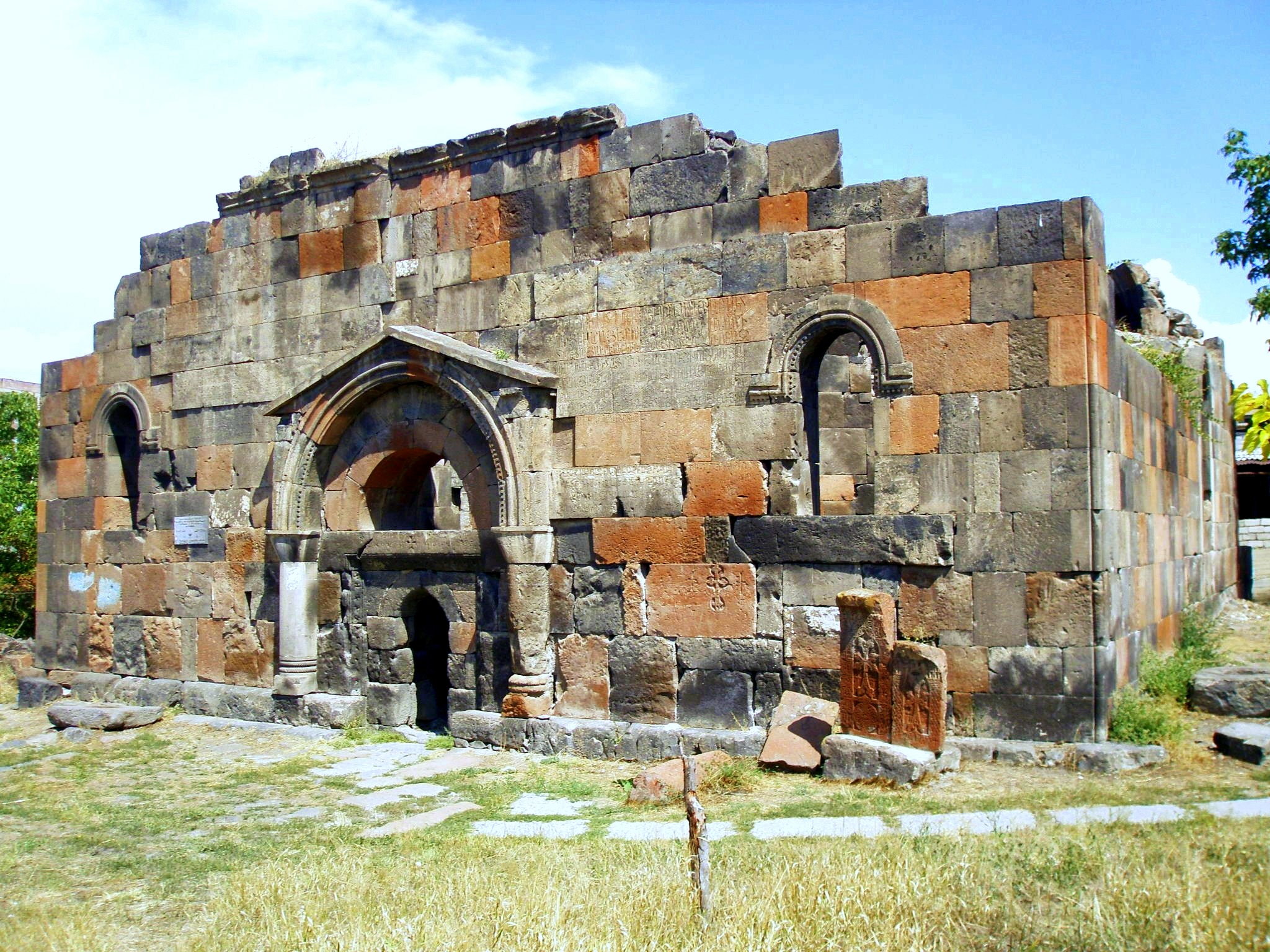 Front facade of Avan Church